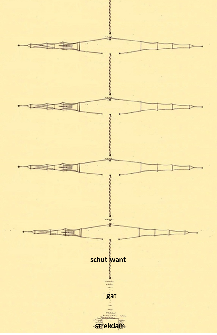 Principle of a fishing lot